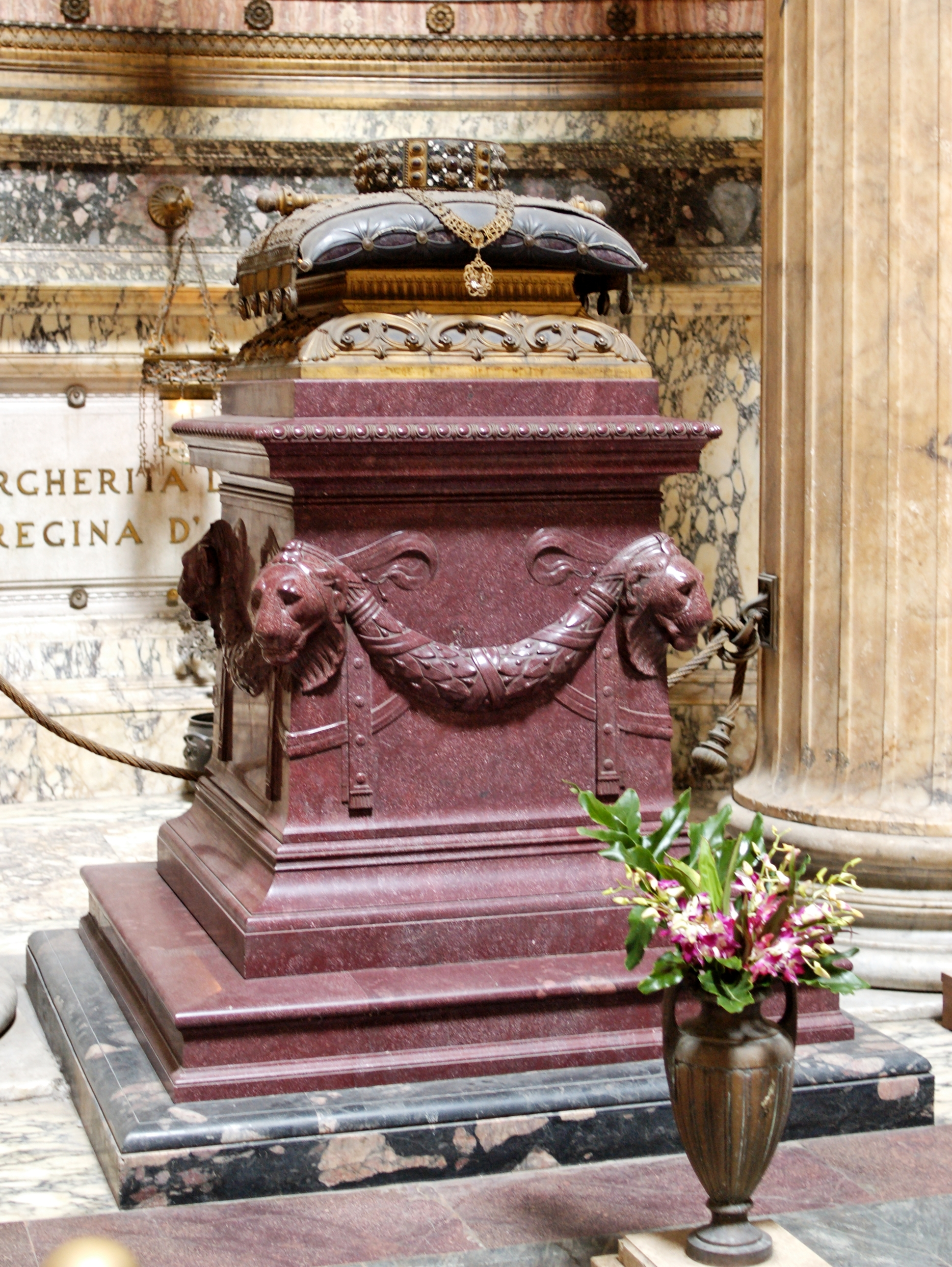 Tomb of Umberto I of Italy at the Pantheon in Rome, by Giuseppe Sacconi (1854-1905).